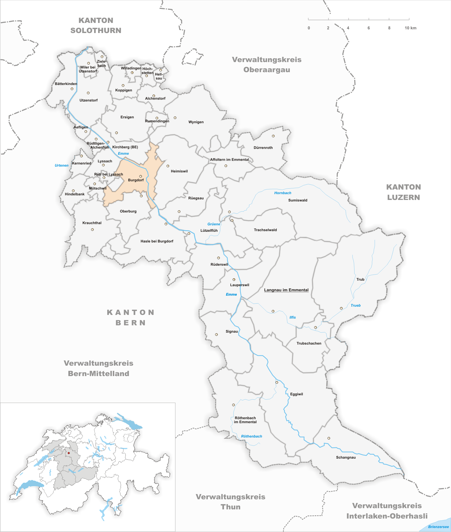 Municipality Burgdorf